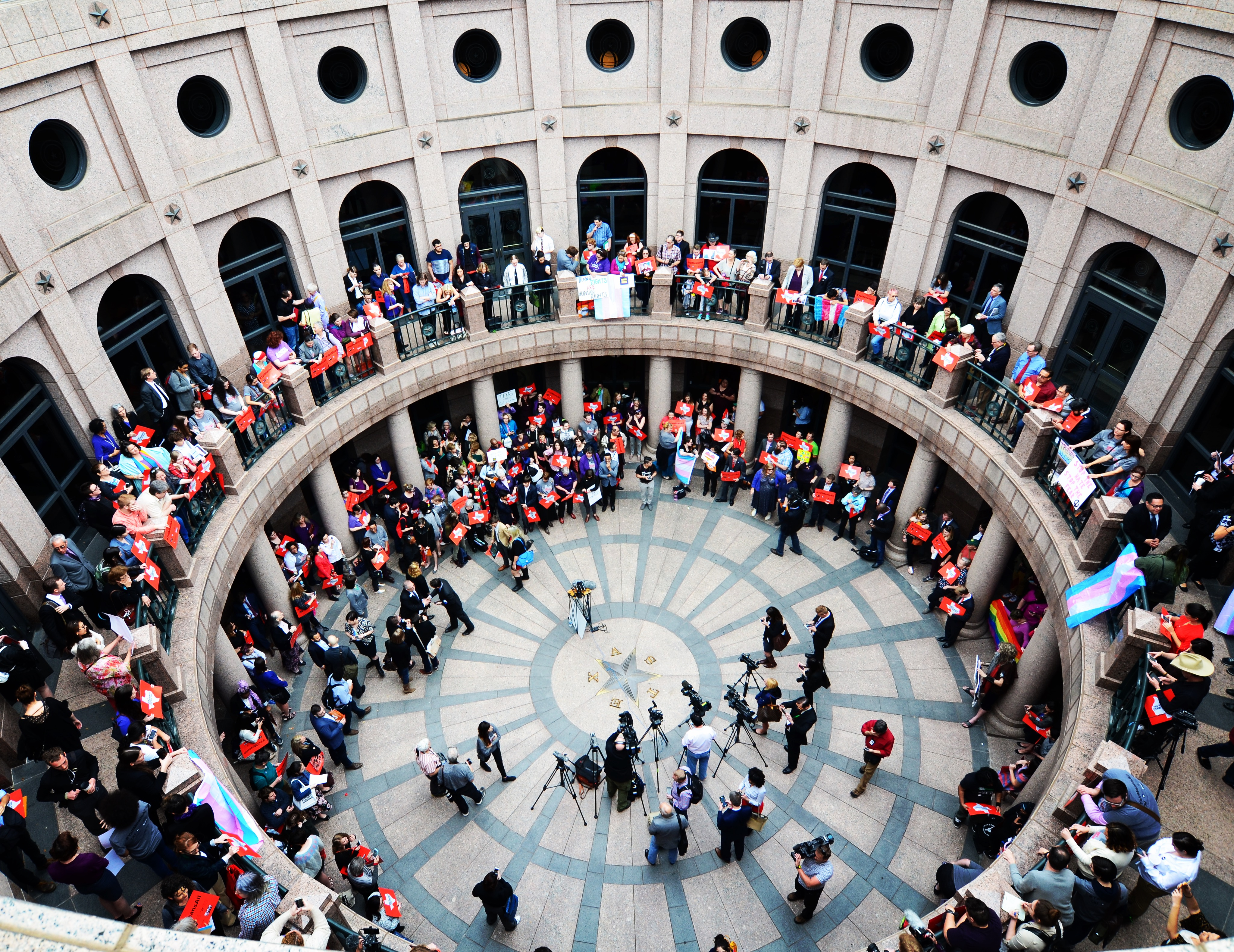 Texans protest the Trans bathroom bill outside the senate committee hearing on SB-6